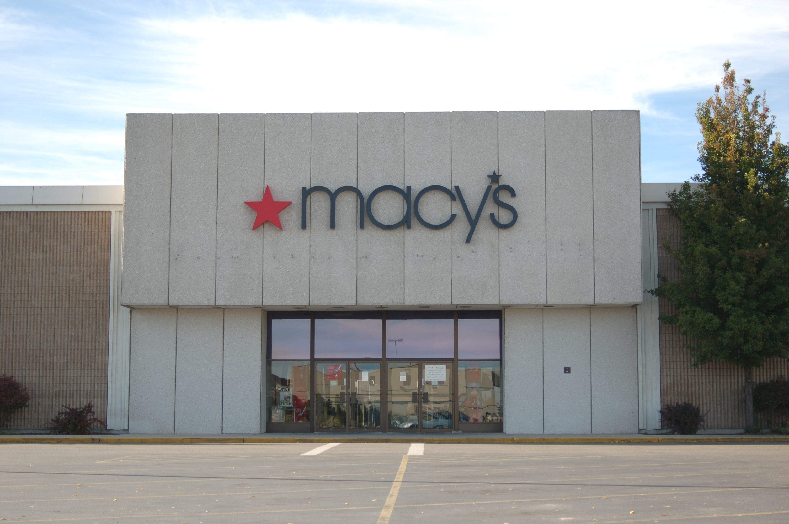 Vacant Macy's at Karcher Mall